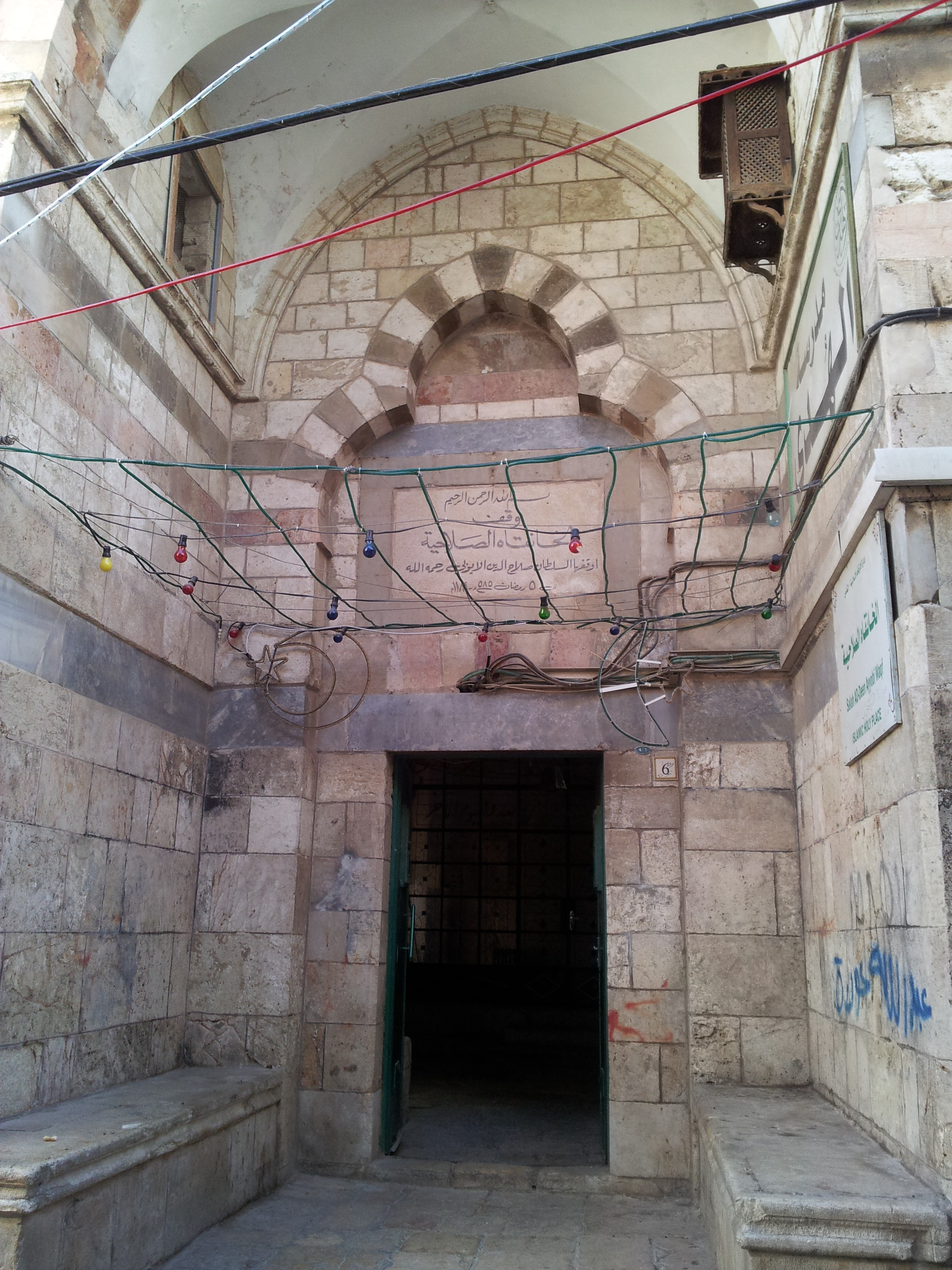 Old Jerusalem, Christian Quarter, al khanakka al slakhiys jerusalem